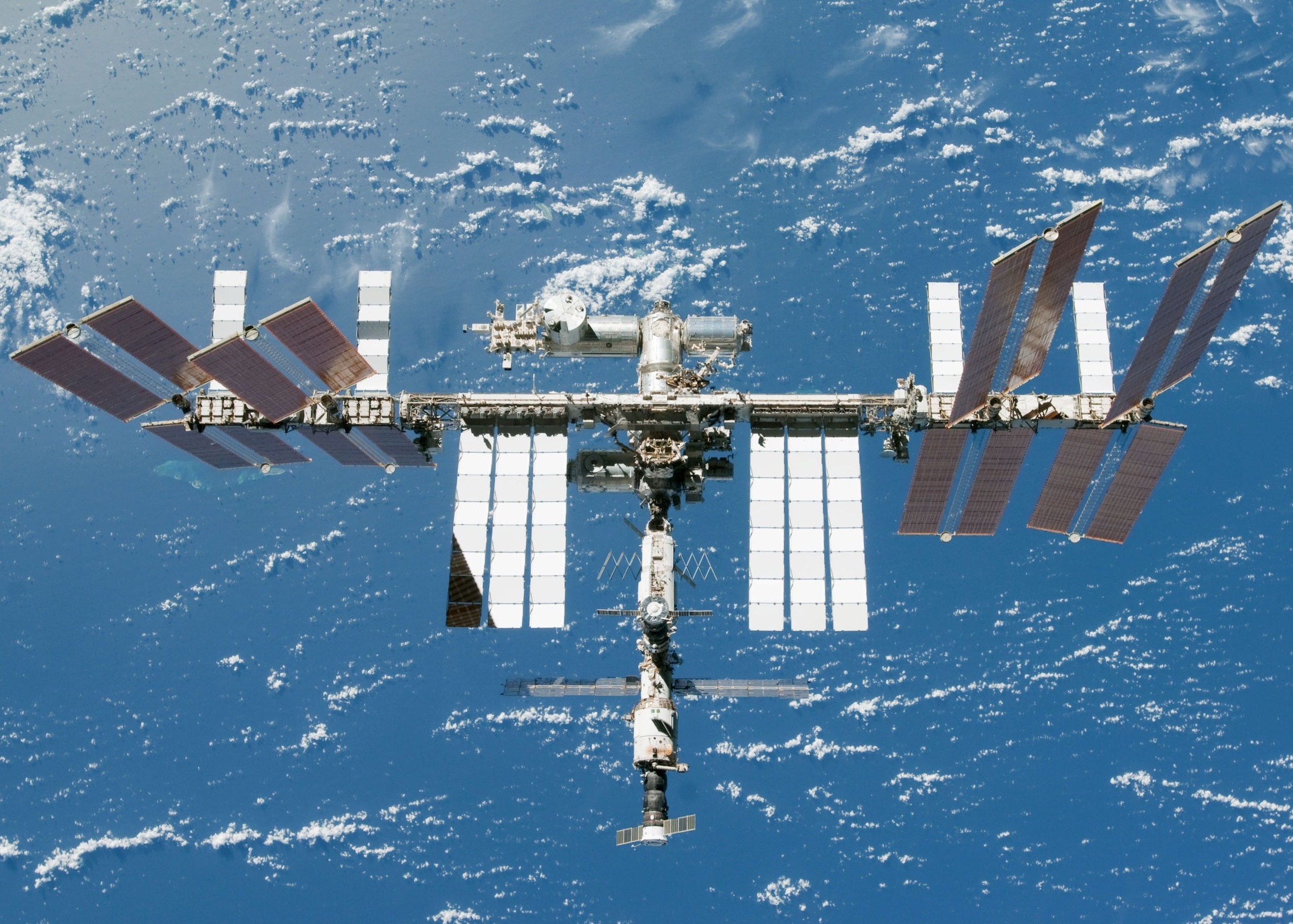 Backdropped by a blue and white Earth, the International Space Station is seen in this image taken by a crew member on the Space Shuttle Endeavour during STS-130, after the station and shuttle began their post-undocking relative separation. Undocking of the two spacecraft occurred at 19:54 EST on 19 February 2010. The two newest modules to be added to the station, Tranquillity and the Cupola, can be seen nestled beneath the Integrated Truss Structure, docked to Unity.